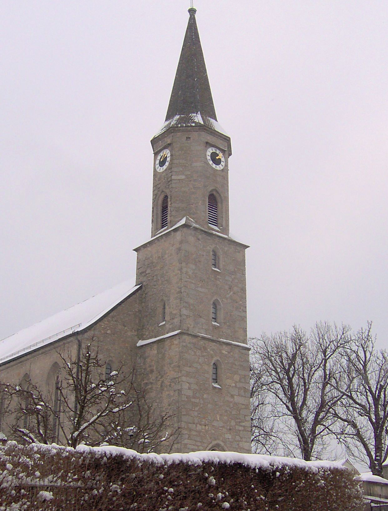 Source: Sabine Cretella cc-by-sa is used since I would like to know who creates other works out of these pictures - maybe also merge them - so please contact me if you need another kind of license